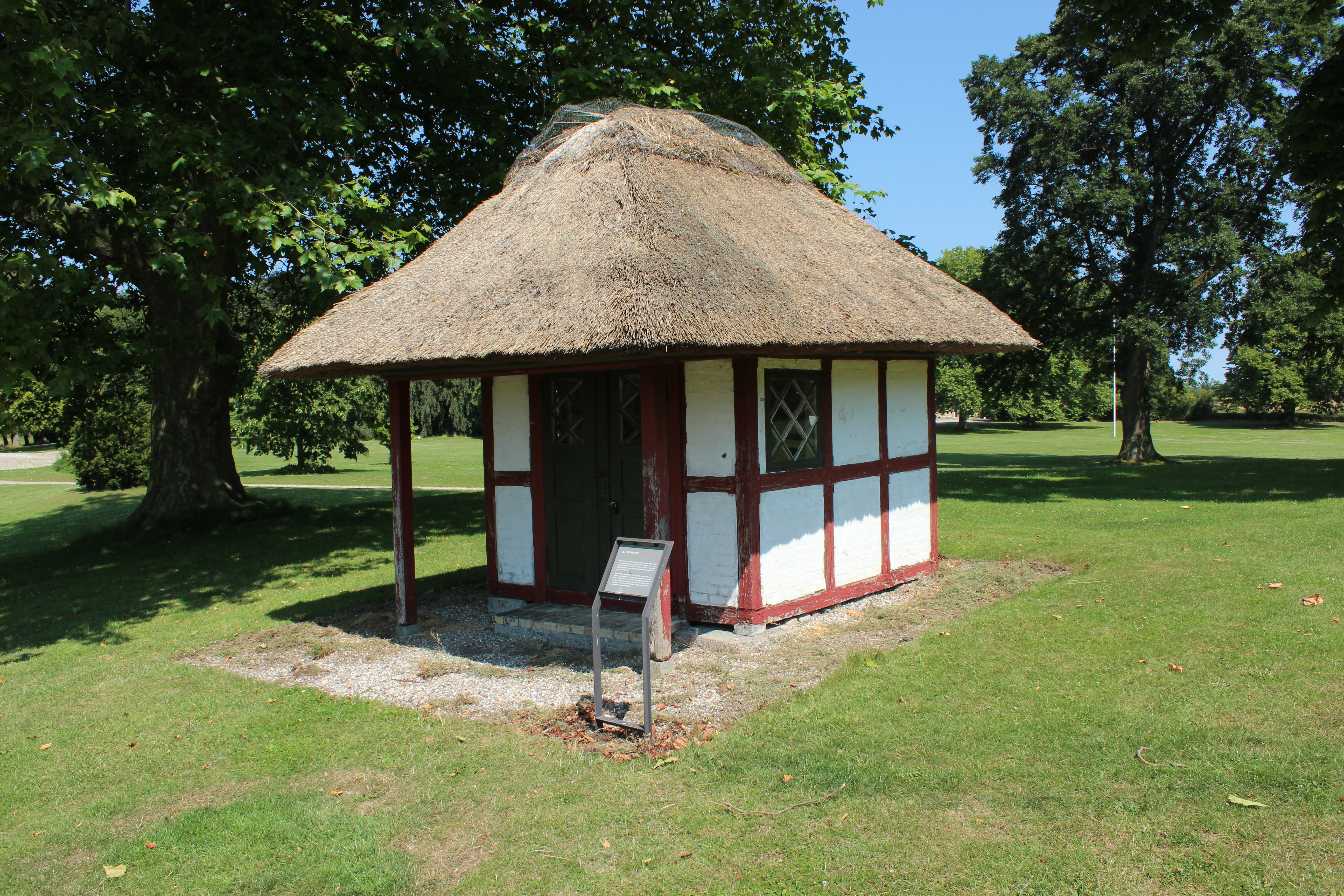 Summerhouse at Pederstrup